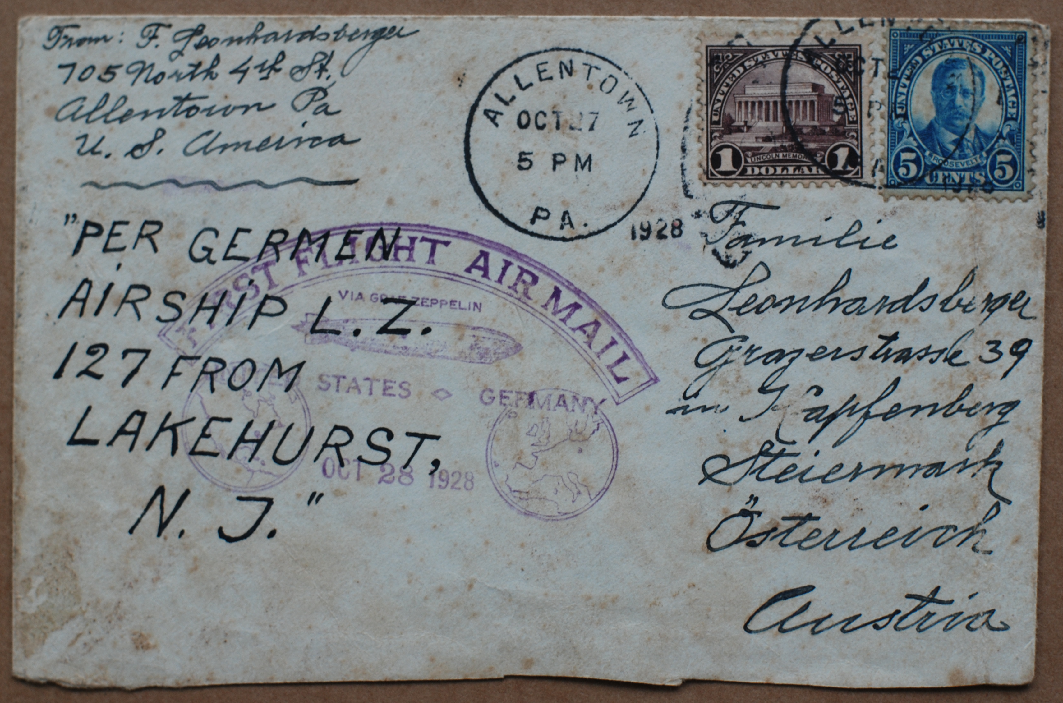 First Flight Graf Zeppelin LZ 127 from Lakehurst USA to Friedrichshafen Germany 1928-10-28